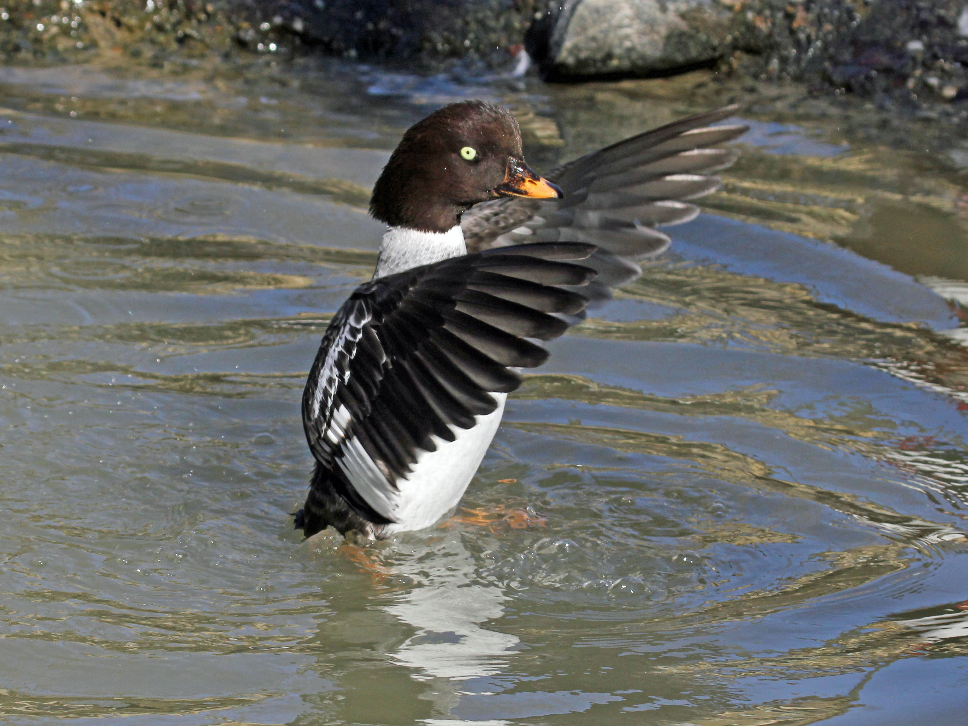 Female Barrow's Goldeneye (Bucephala islandica) - Sylvan Heights Waterfowl Park, North Carolina